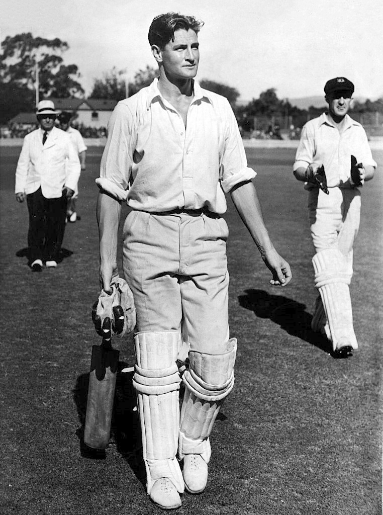 Keith Miller, aged 26, after making 188 for Victoria at the Adelaide Oval, 21 November 1946. The Age Picture by STAFF